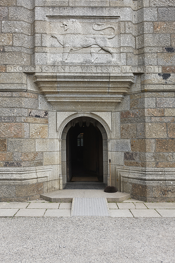 Castle Drogo in the Teign Valley Drewsteignton, Devon, England. Designed by Sir Edwin Lutyens in granite to create Julius Drewe's "ancestral home". Grade I listed. Building completed in the 1920s.